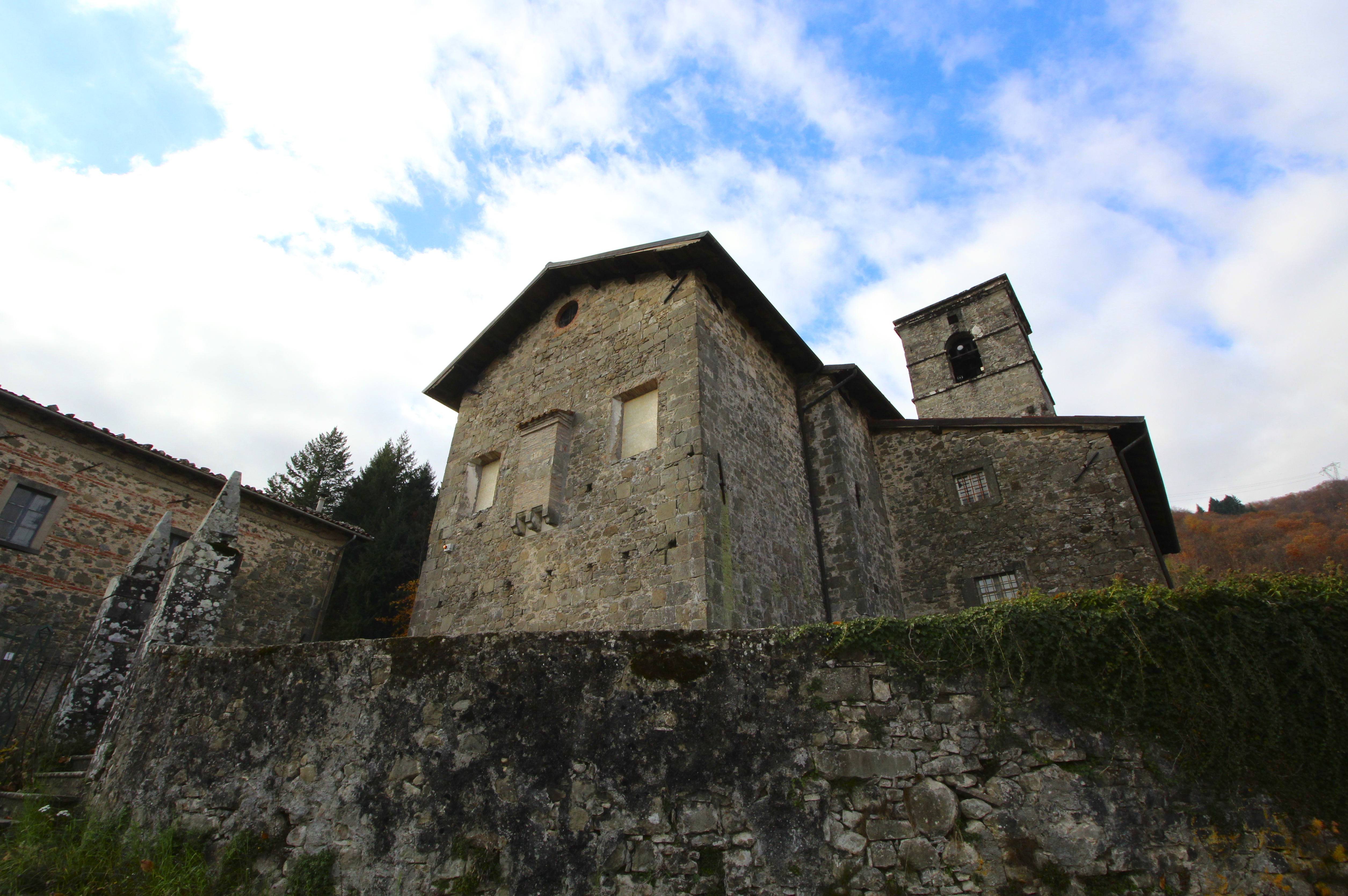 Church Santa Maria Assunta, Vitoio, hamlet of Camporgiano, Garfagnana, Province of Lucca, Tuscany, Italy